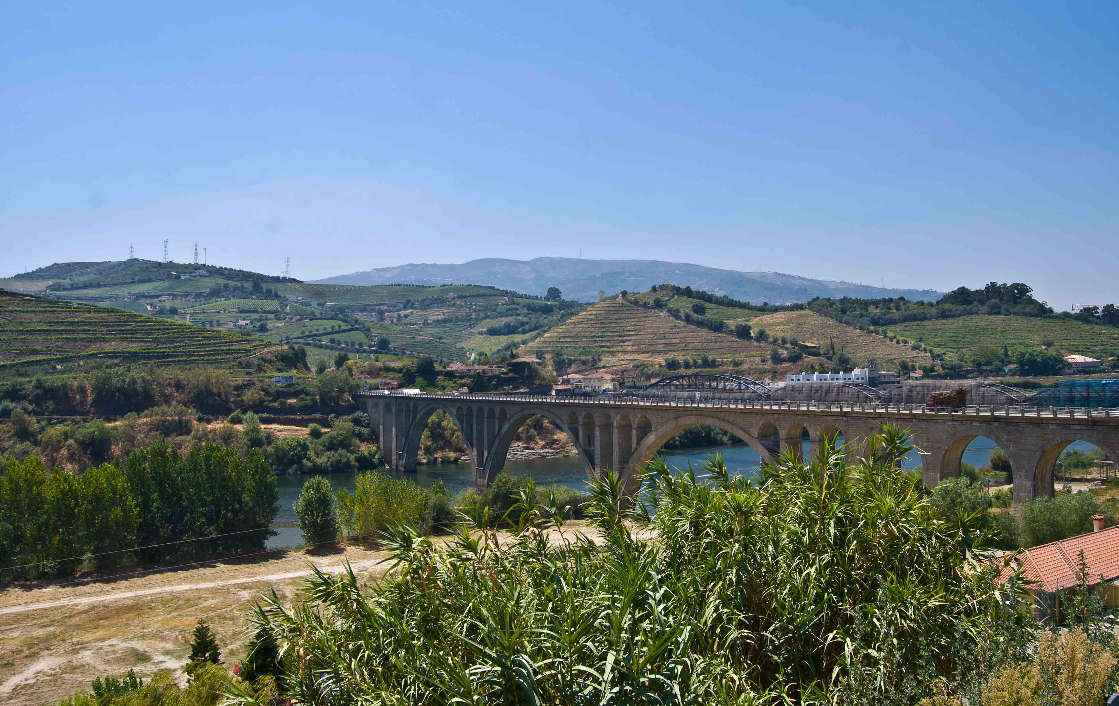 Peso da Regua landscape